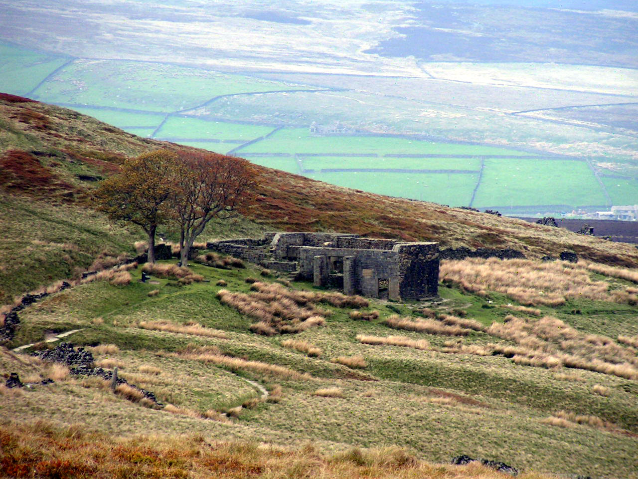 Top Withens, said to have been the inspiration for Wuthering Heights